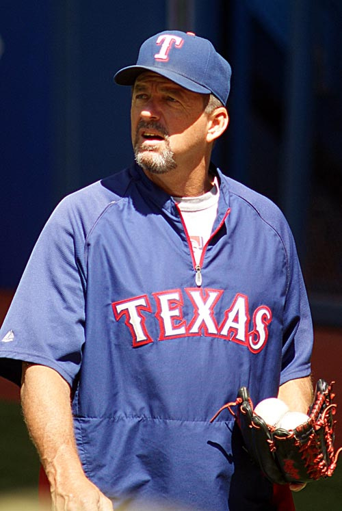 Texas Rangers bullpen coach, Andy Hawkins during pre-game drills at a game against the Toronto Blue Jays at the Rogers Centre.